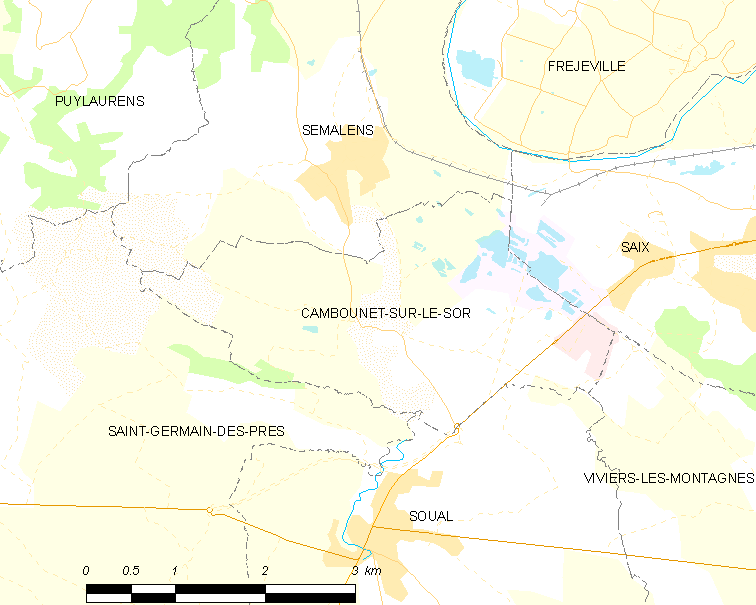 Map of French municipality Cambounet-sur-le-Sor